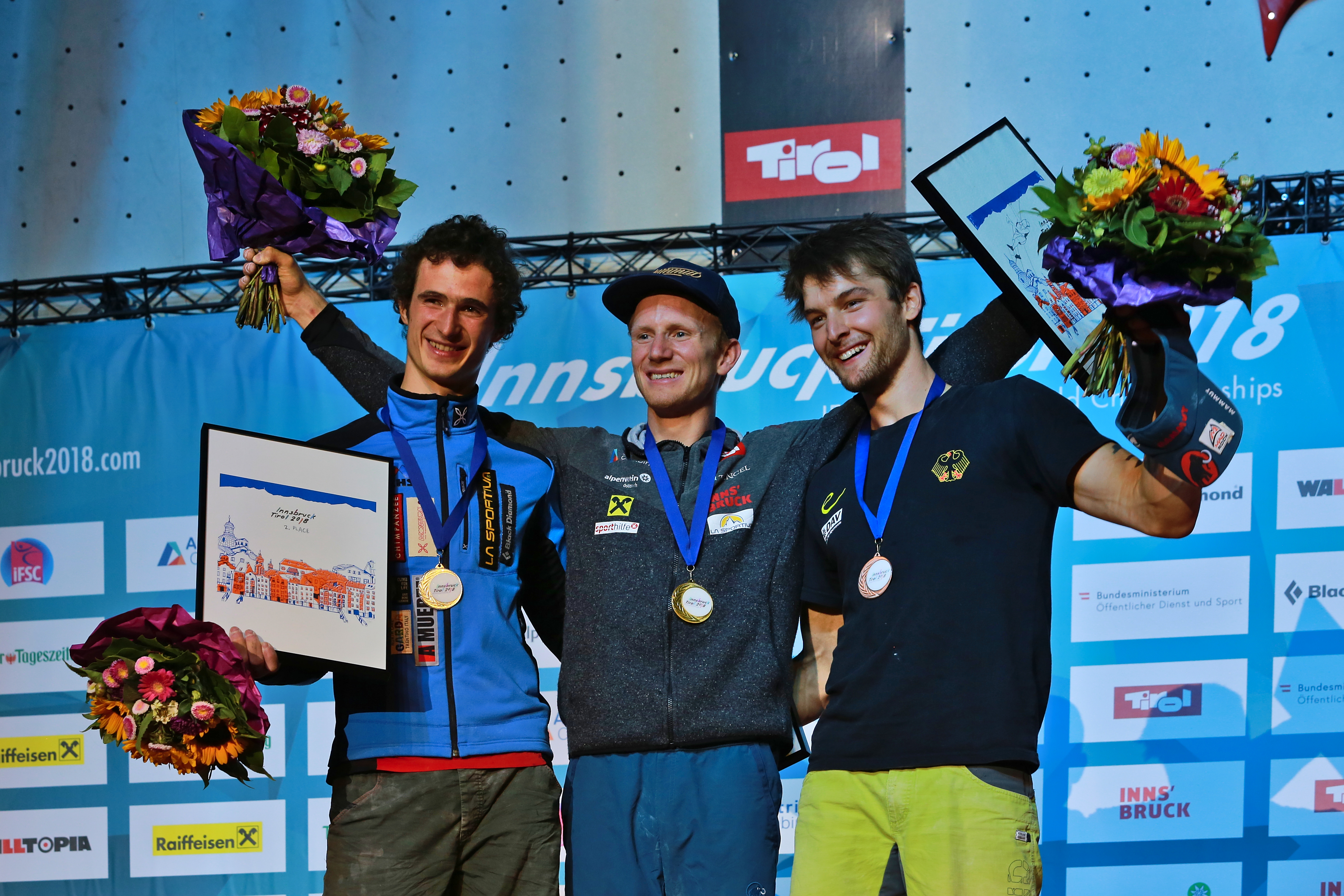 Climbing World Championships 2018 Combined Final Man winners